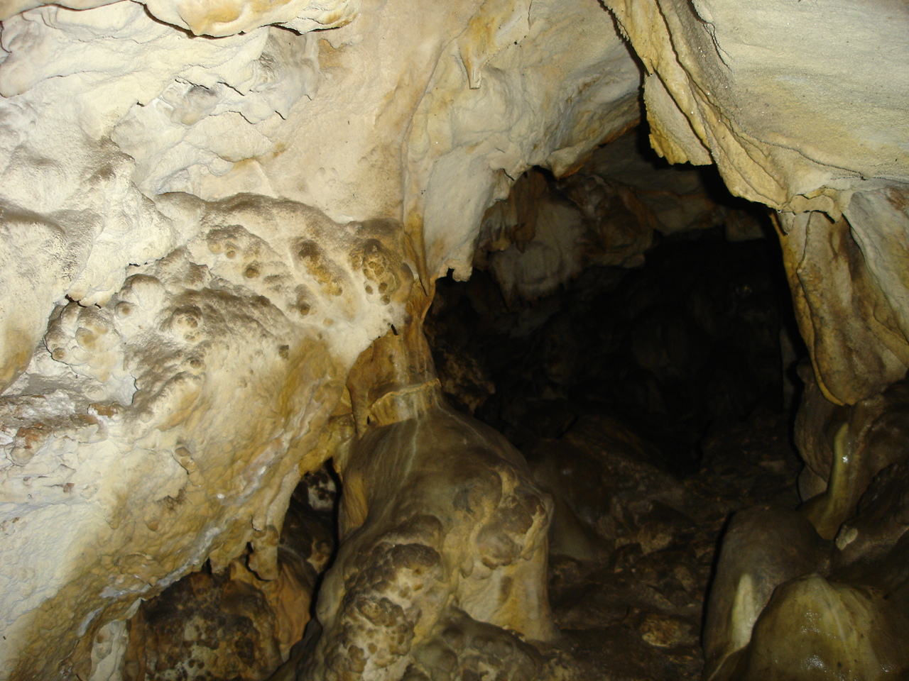 Hristijanova cave, Macedonia